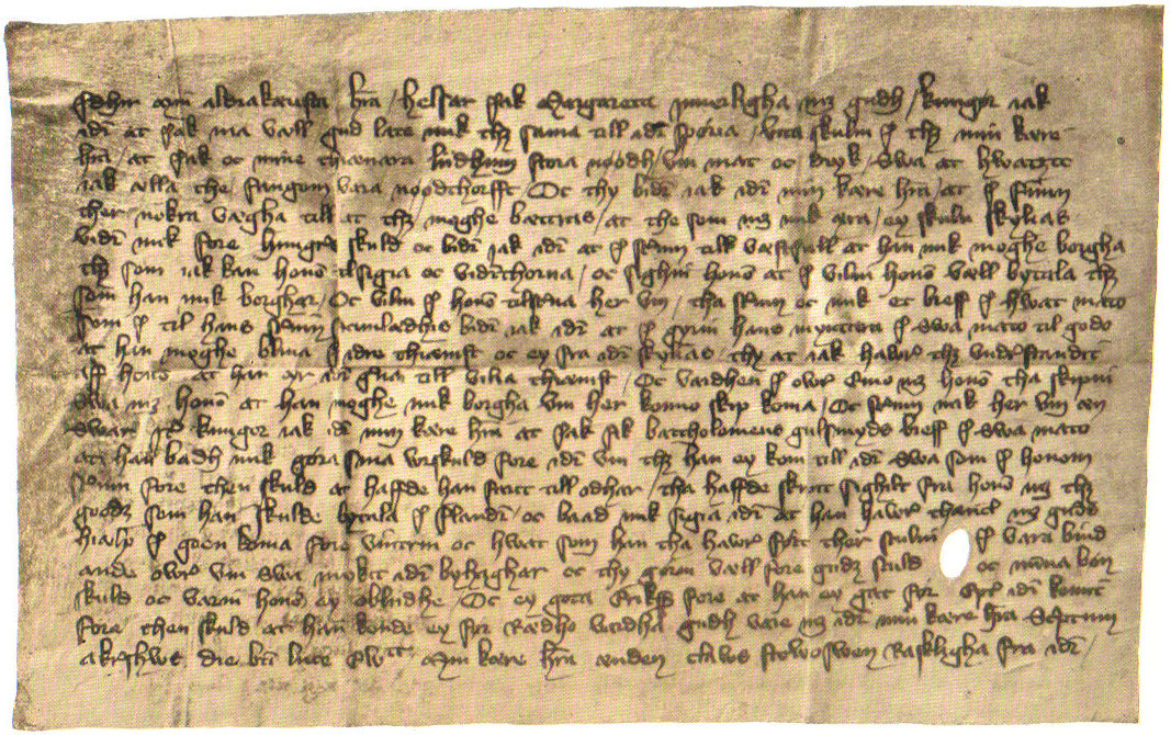 A page from a letter from queen Margaret to king Håkon VI of Norway. DN. I.409 [1]